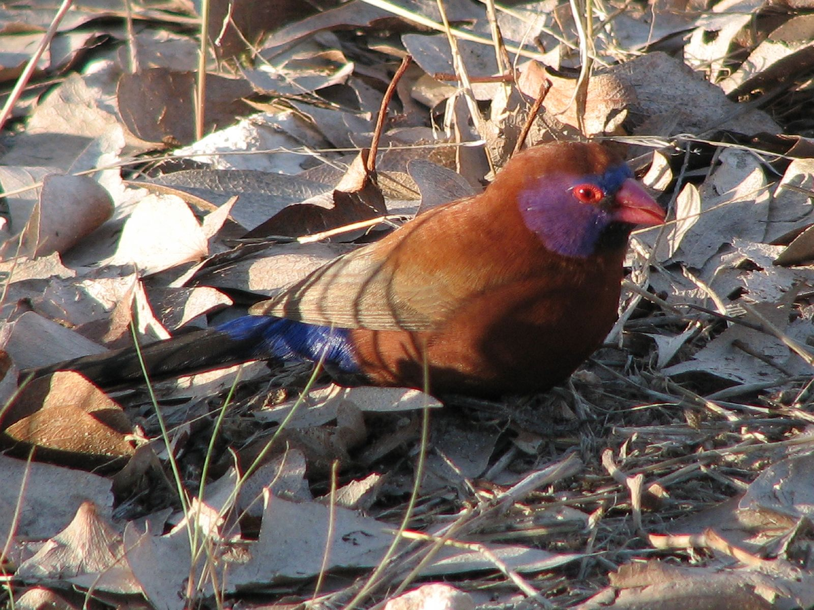 Violet-eared Waxbill Uraeginthus granatinus in Namibia.